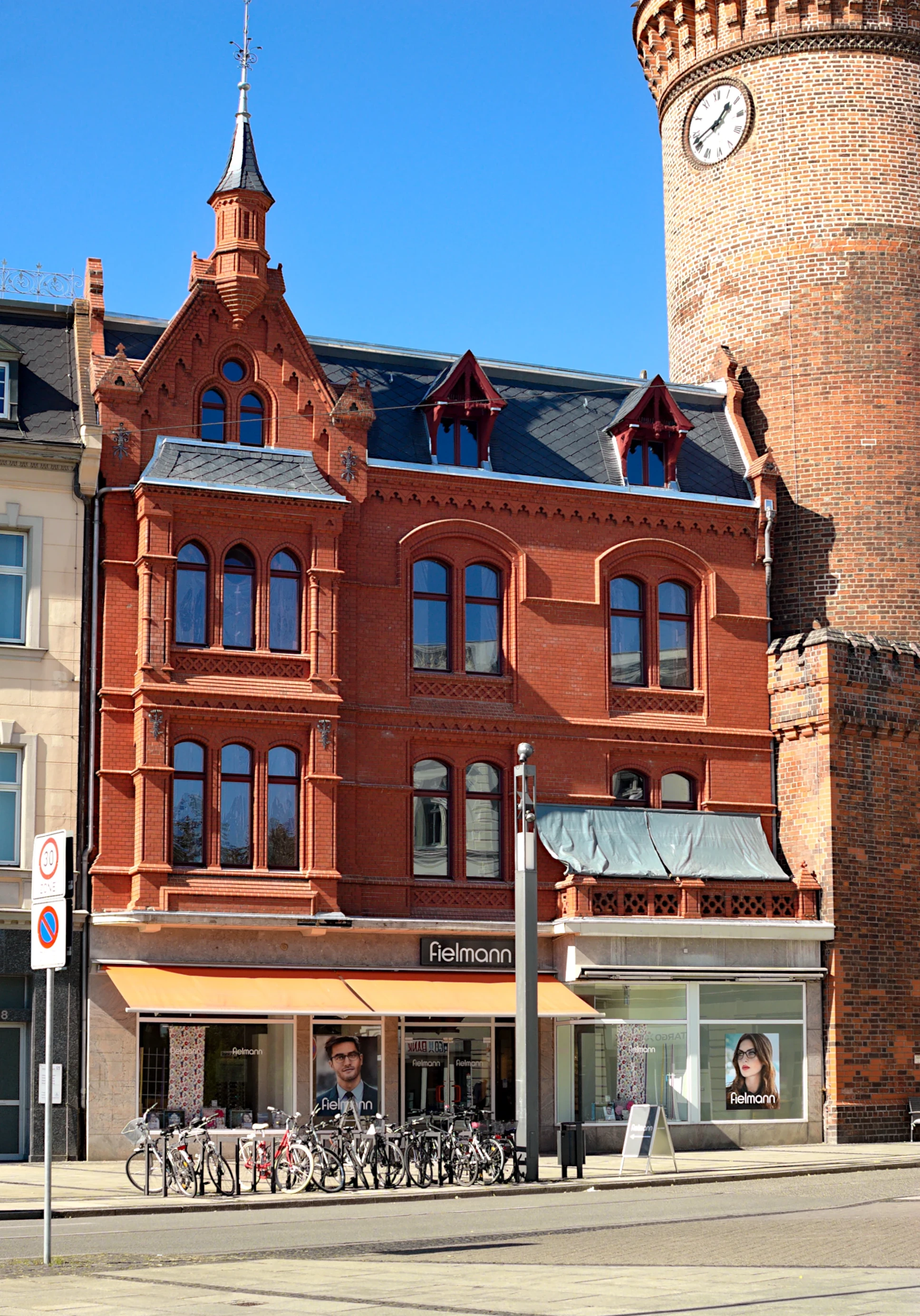 Recently-refurbished listed building Spremberger Straße 19, Am Turm 23 in Cottbus-Mitte.